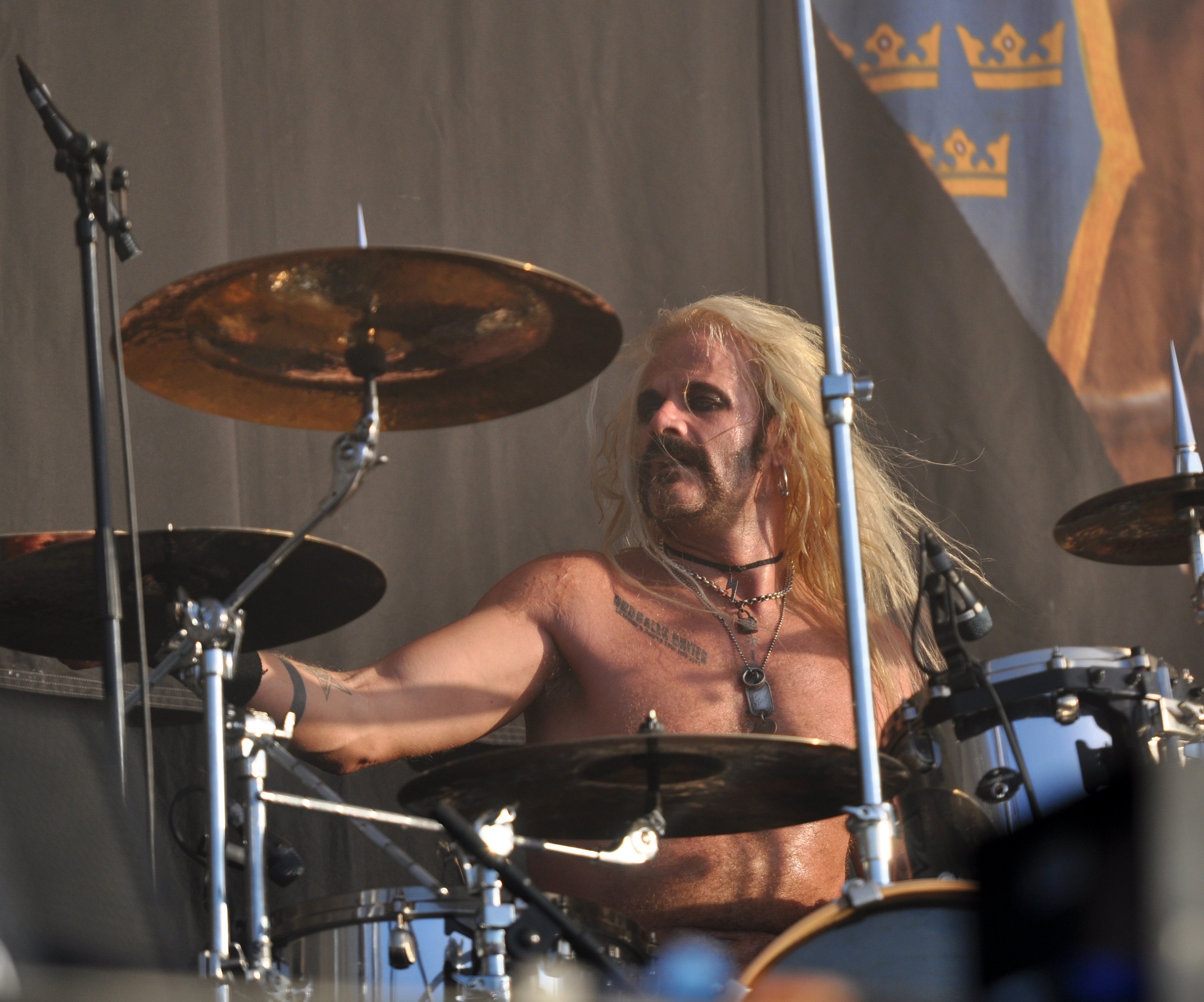 Sabaton at Wacken Open Air 2013